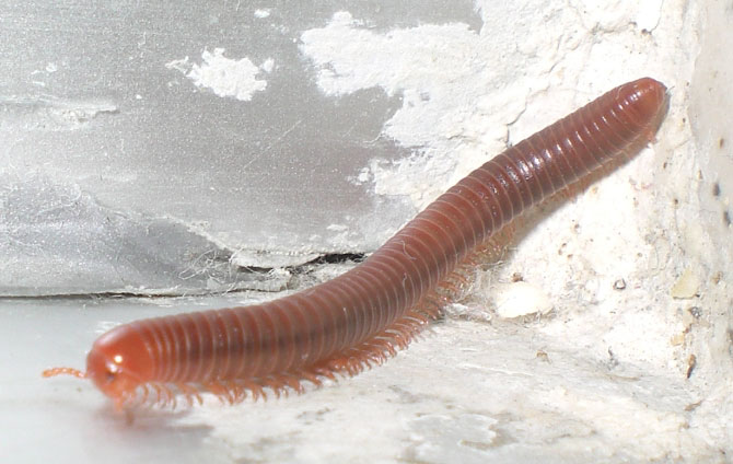 Author= RedLong